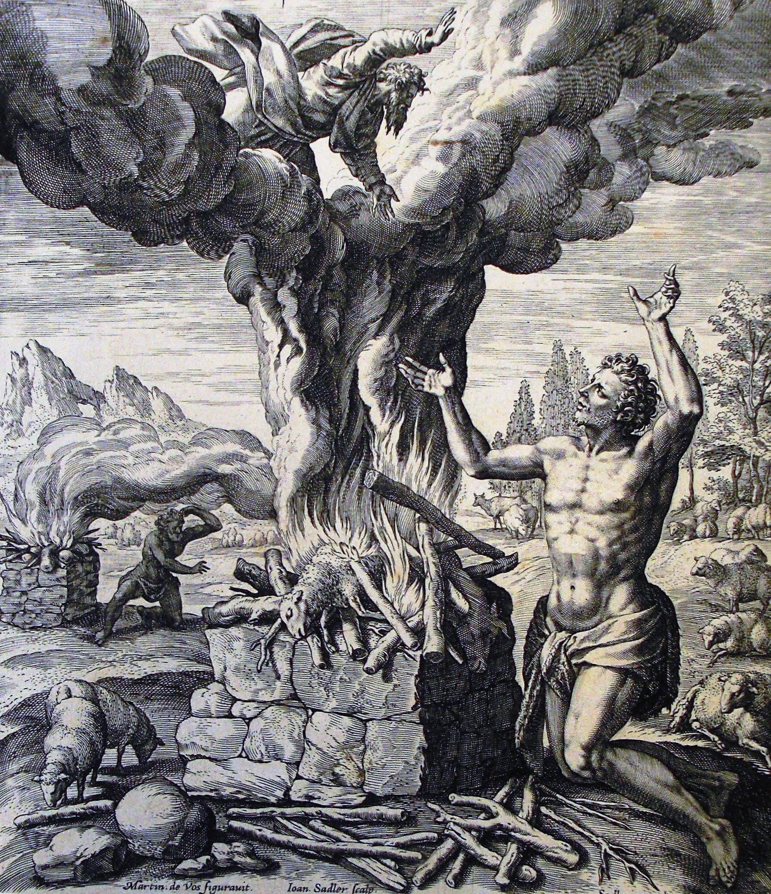 Cain and Abel make offerings. Genesis cap 4 vv 3-7. De Vos